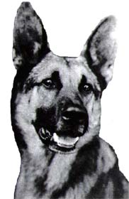 Strongheart (1917 - 1929), canine star of silent films.